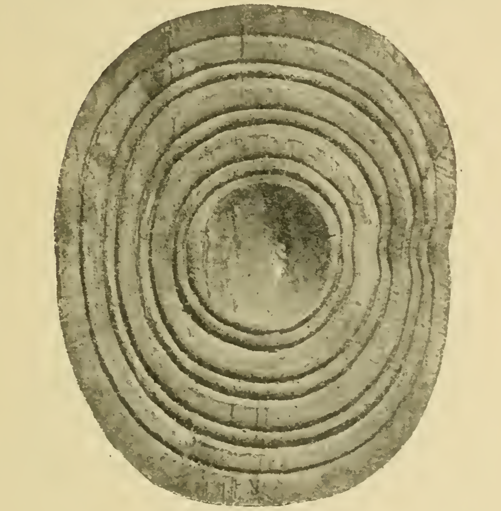 Illustration of the Kiltubrid shield from MacAllister (1921)